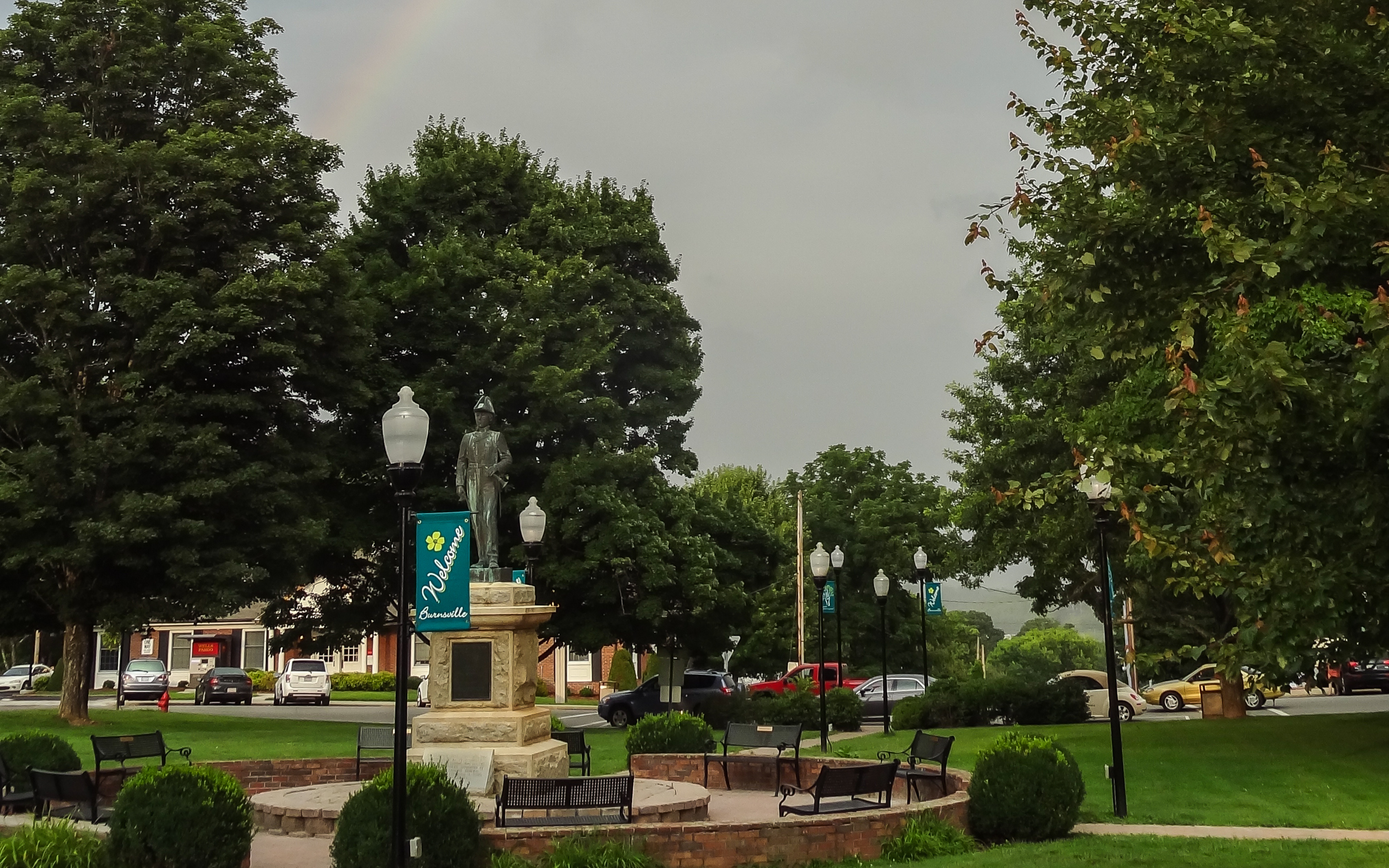 view of Burnsville Town Square, looking east. Statue is Captain Otway Burns, namesake of the town.